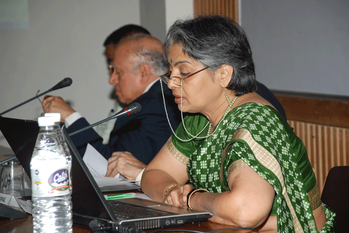 Savithri Singh at launch of Wiki educator India Platform.